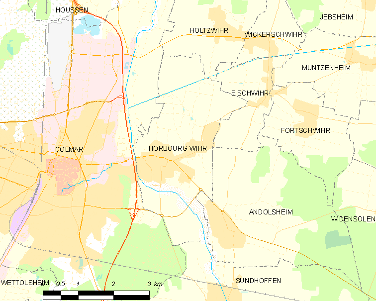 Map of French municipality